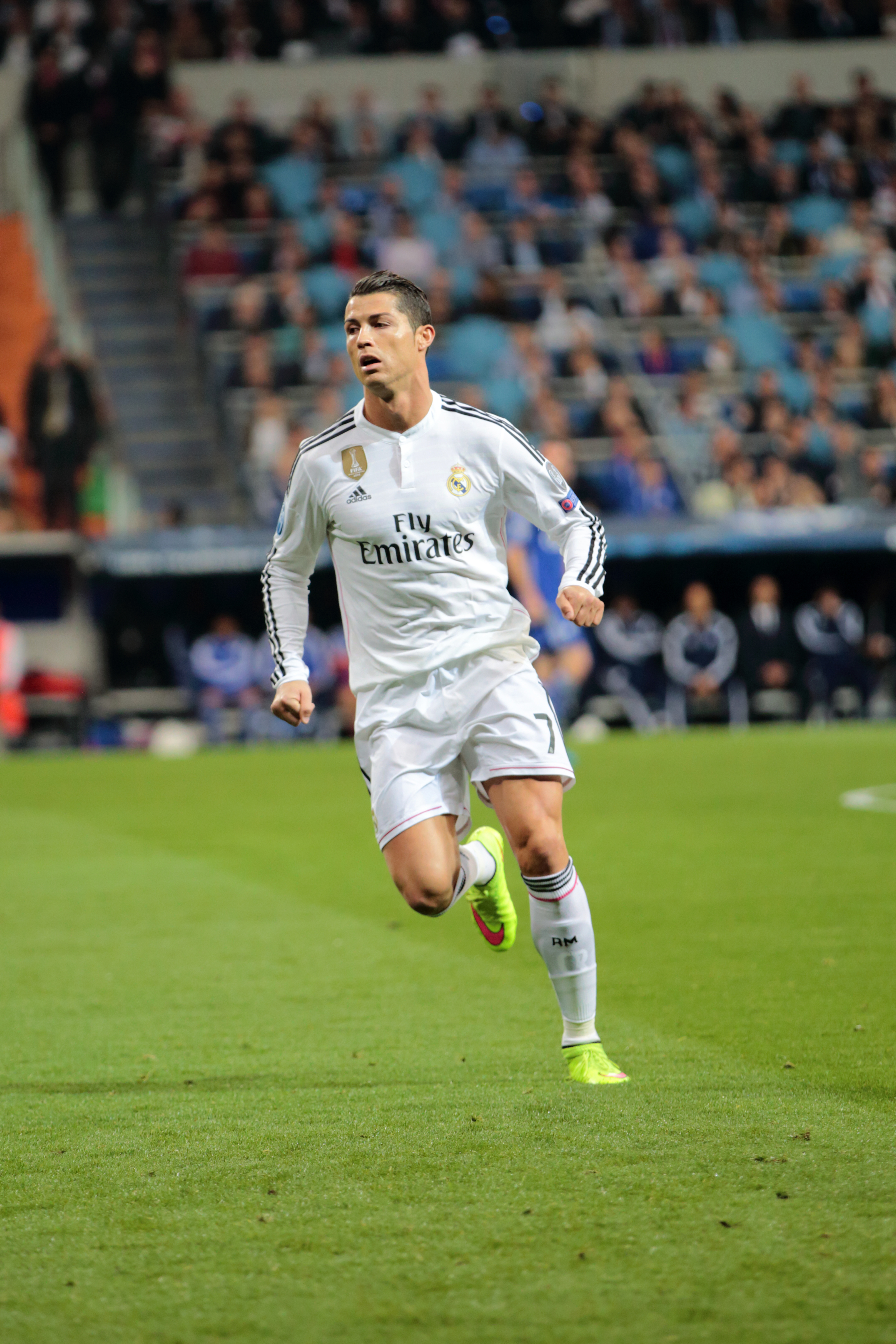 UEFA Champions league game, Real Madrid vs. FC Schalke at Estadio Santiago Bernabeu. Real Madrid lost 3-4 but advanced on a 5-4 aggregate.